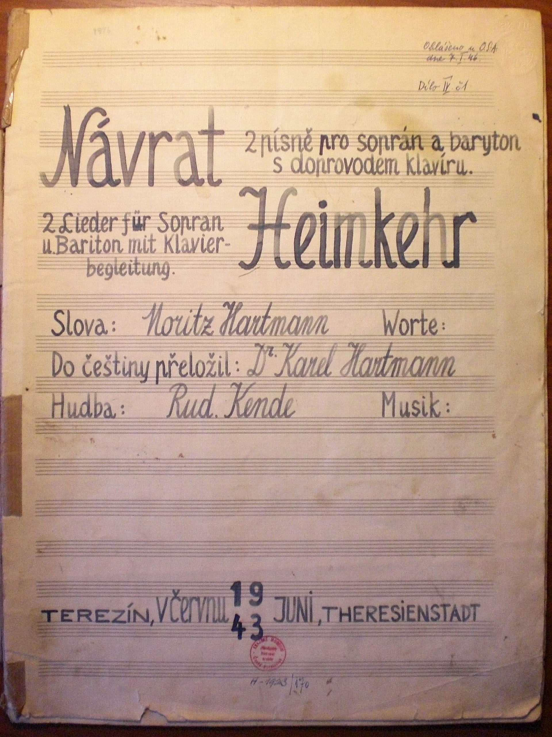 First page of the work Homecoming by Rudolf Kende, Czech composer from České Budějovice